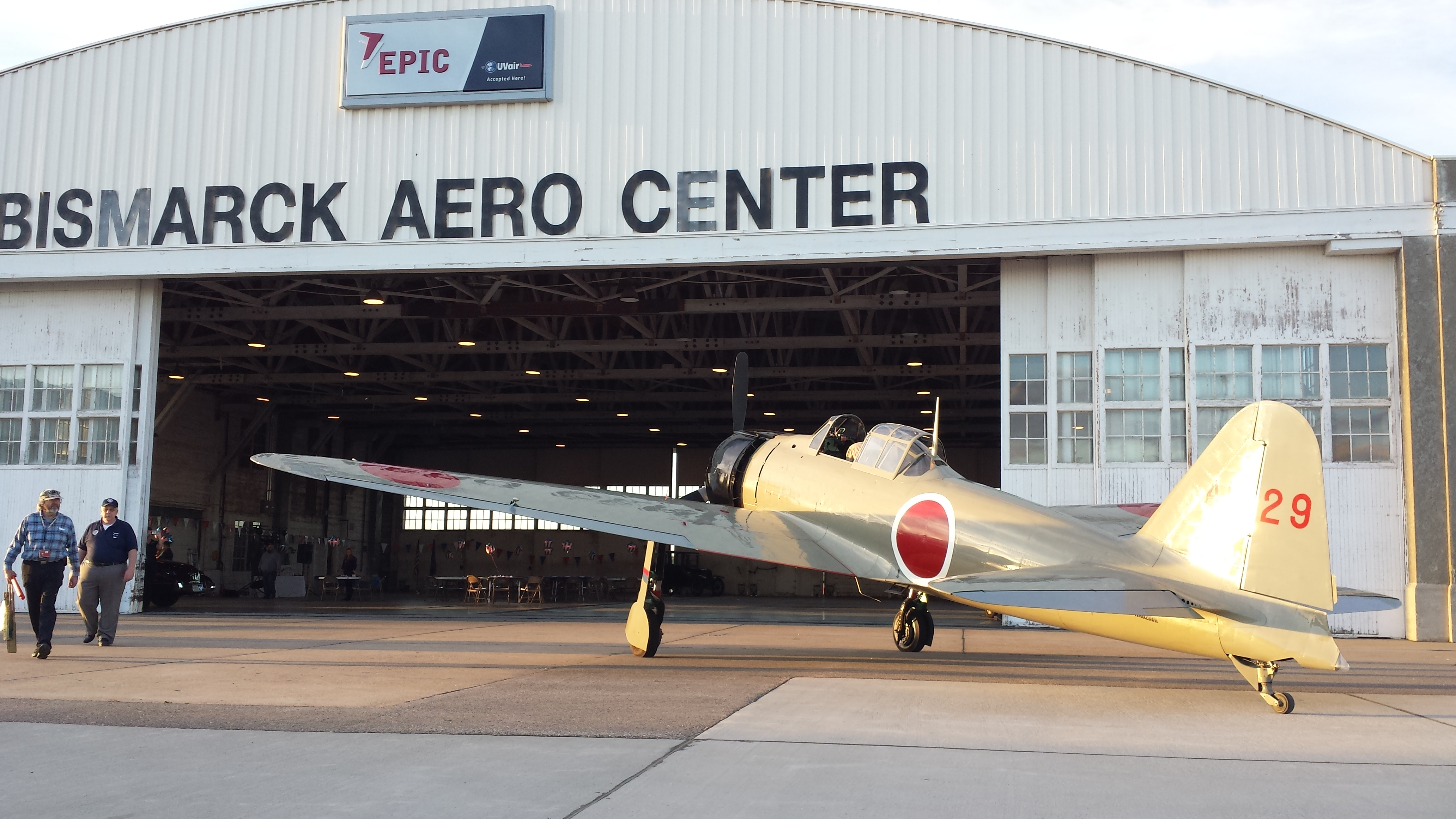 Local air show brings a replica Mitsubishi Zero to the venue at Bismarck, ND